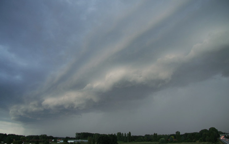 Shelfcloud over Beervelde, Belgium